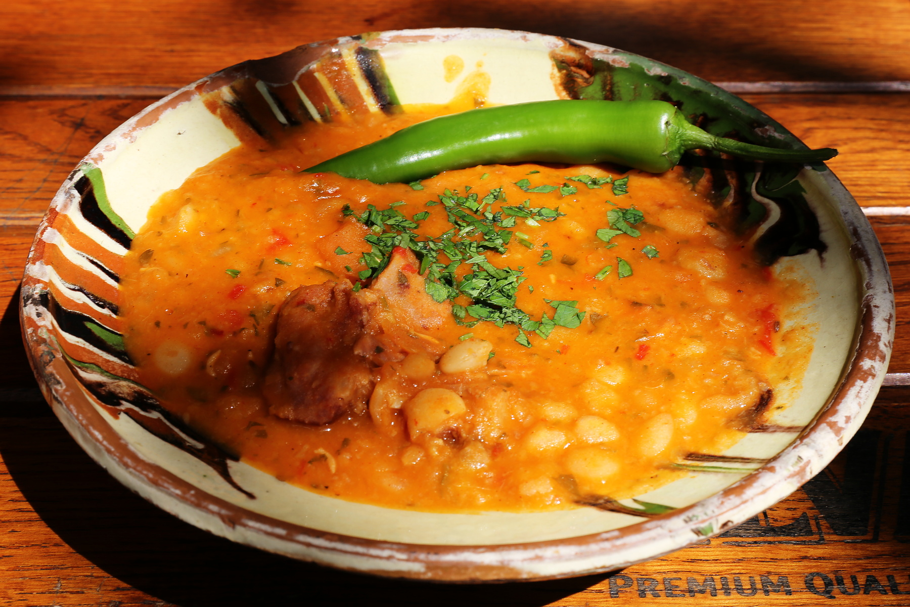 Beans with smoked pork and chili on the side